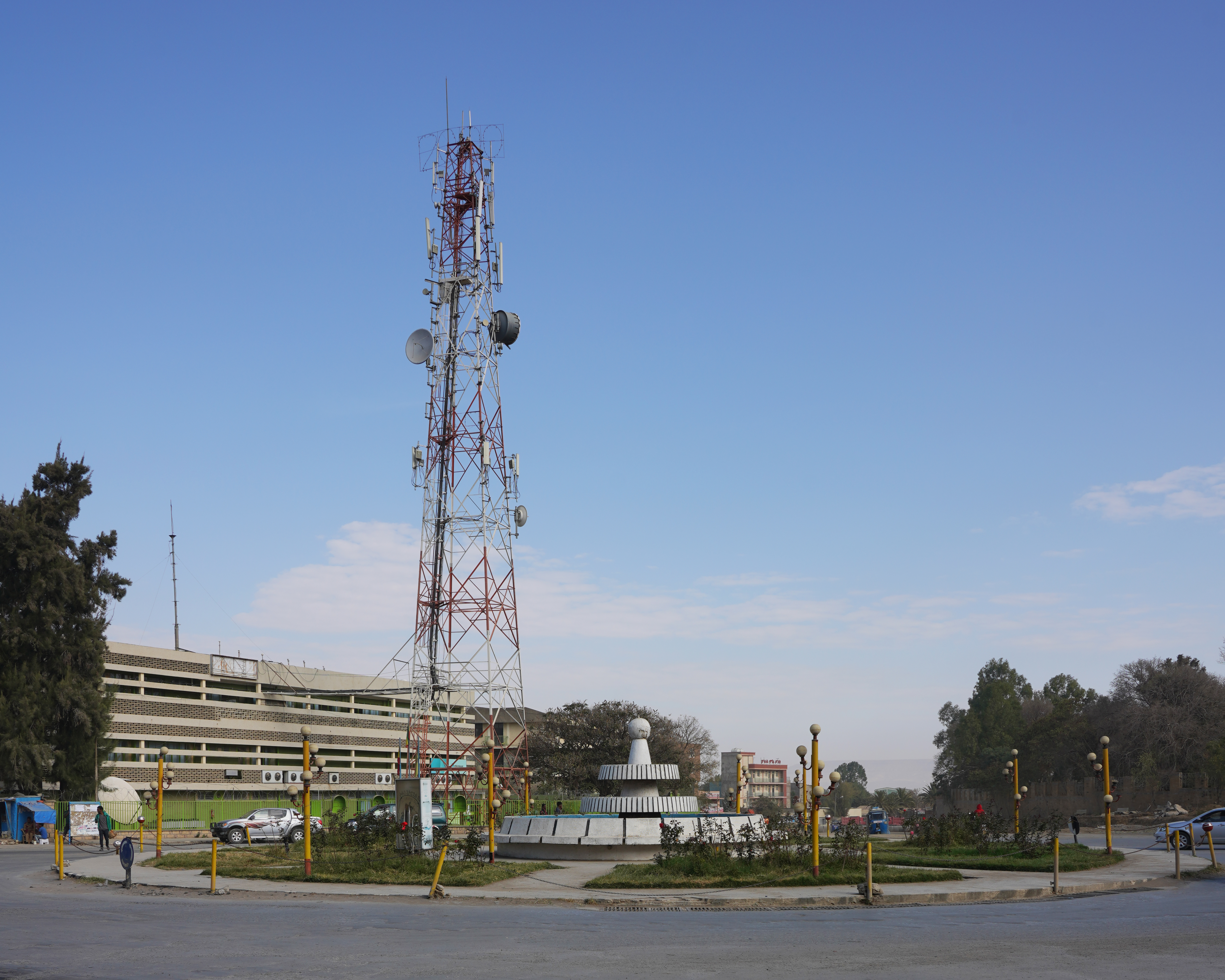 Selam Street and Ethio Telecom mast and building in Mekele, Ethiopia